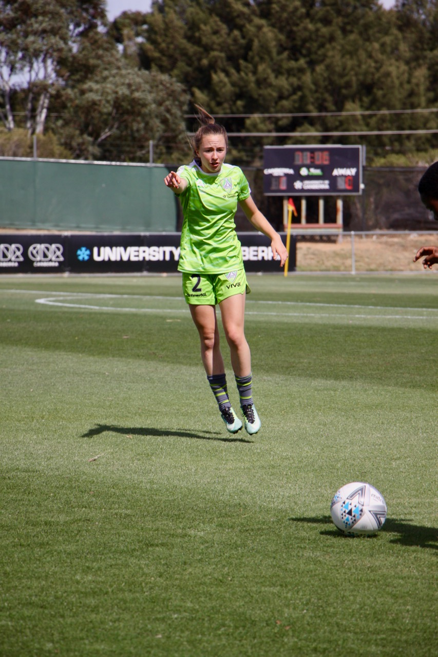 Round2CanPer - HughesWarmUp